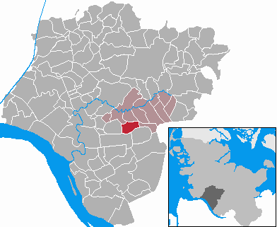 This map shows the area of the municipality Lägerdorf in the Kreis (district) Steinburg, Schleswig-Holstein, Germany.